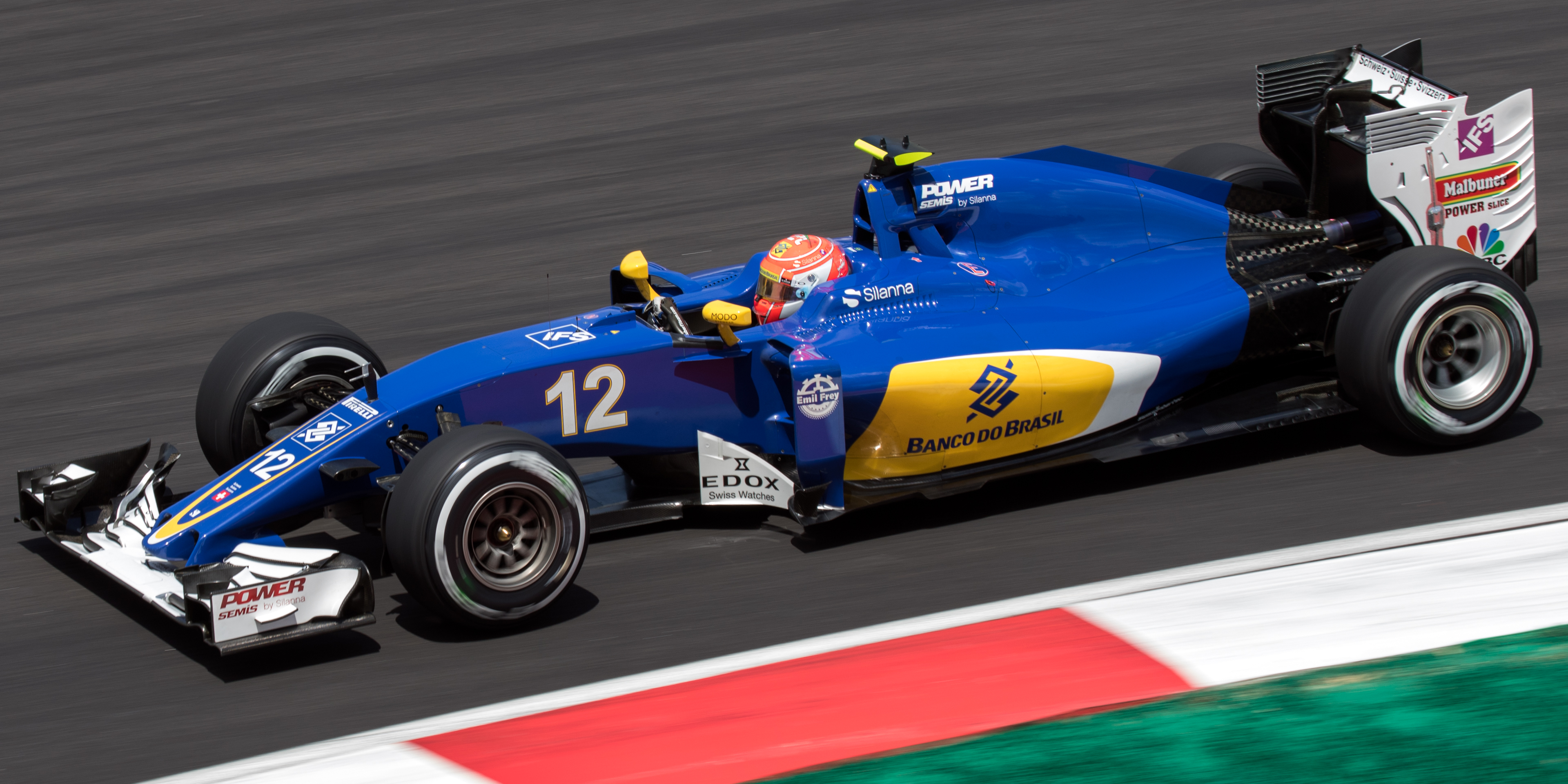 Formula One 2016 Rd.16 Malaysian GP: Felipe Nasr (Sauber)